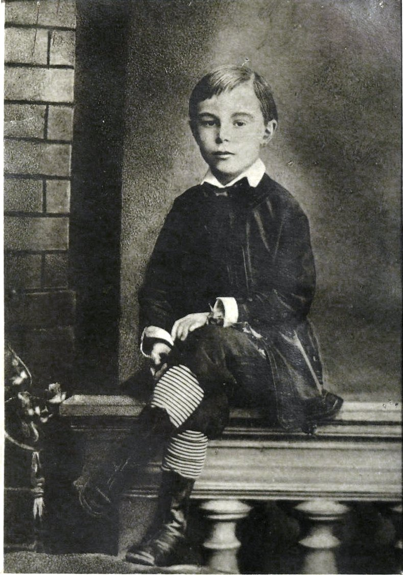 Photography of a young Alexander Scriabin. 1870s